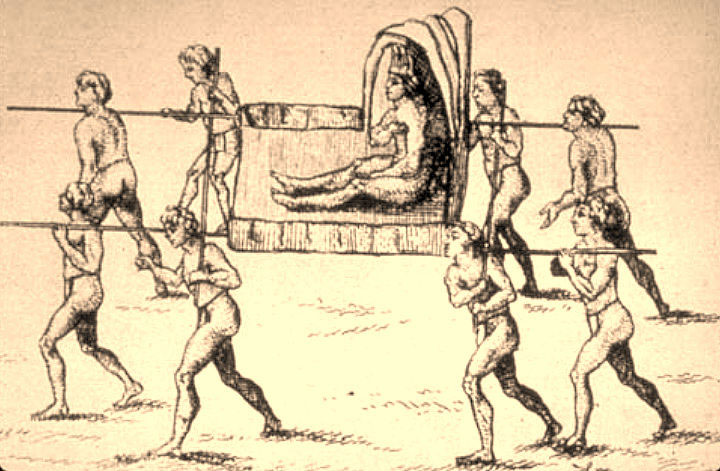 Caption from first online source listed: "The Great Sun, Paramount Chief of the Natchez People" (drawing)